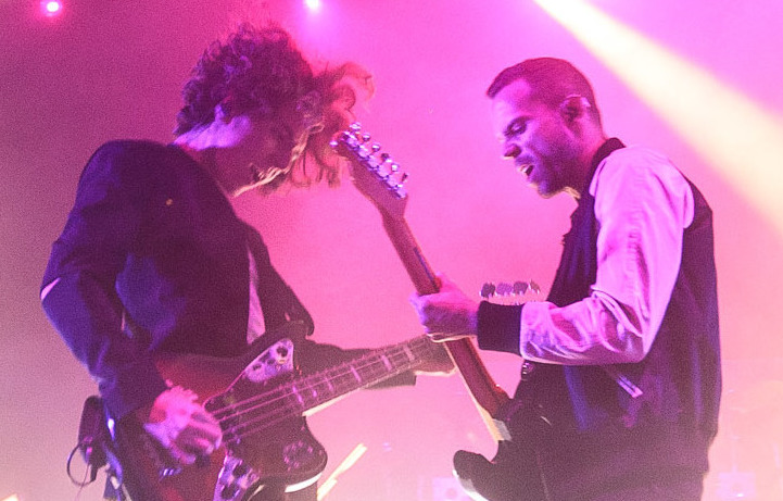 BOSTON, MA - July 21, 2016 - French electronic act M83 bring their tour in support of 2016's "Junk" to Boston's Blue Hills Bank Pavilion. Photo by Ben Stas.